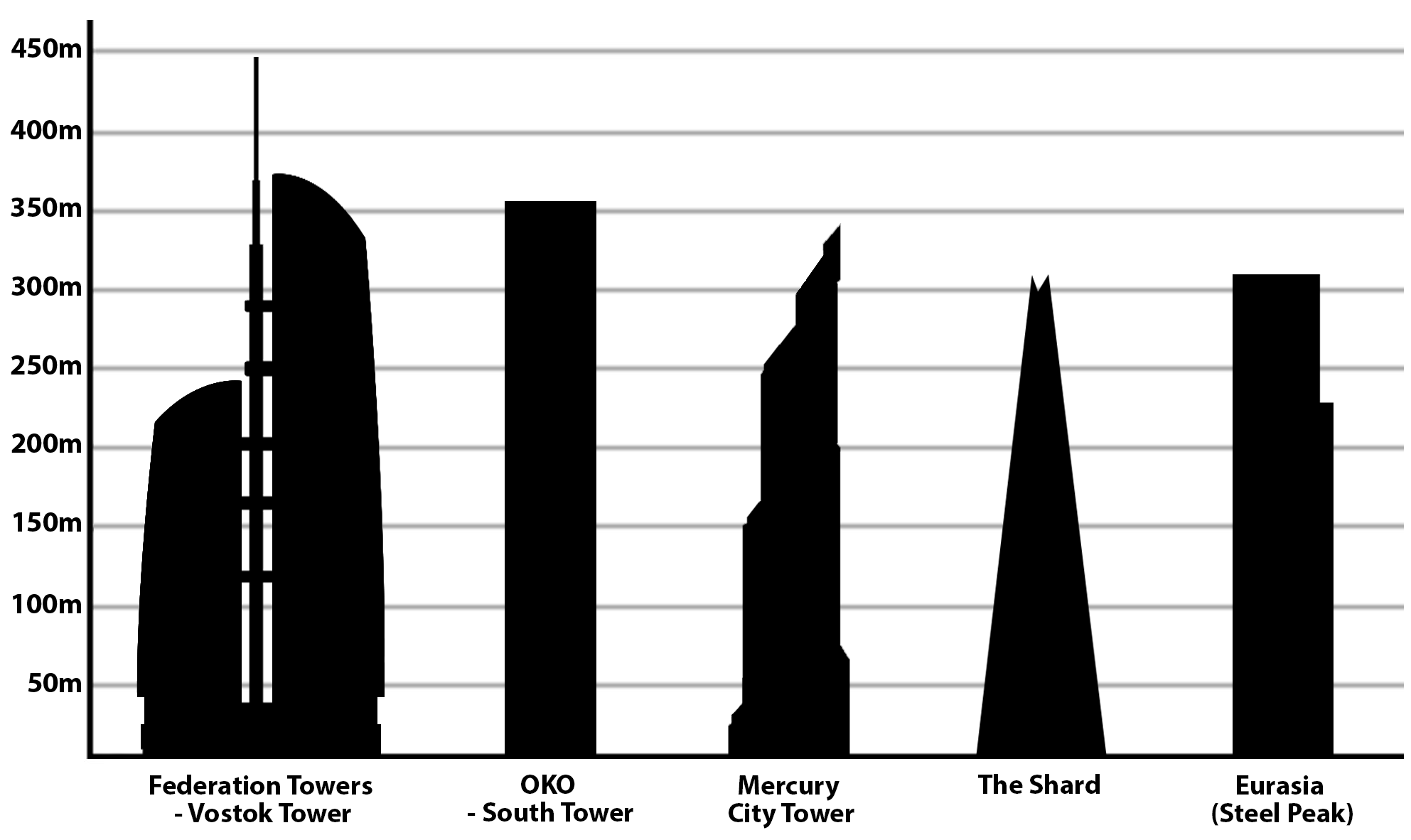 Tallest buildings in the Europe; Used data from .